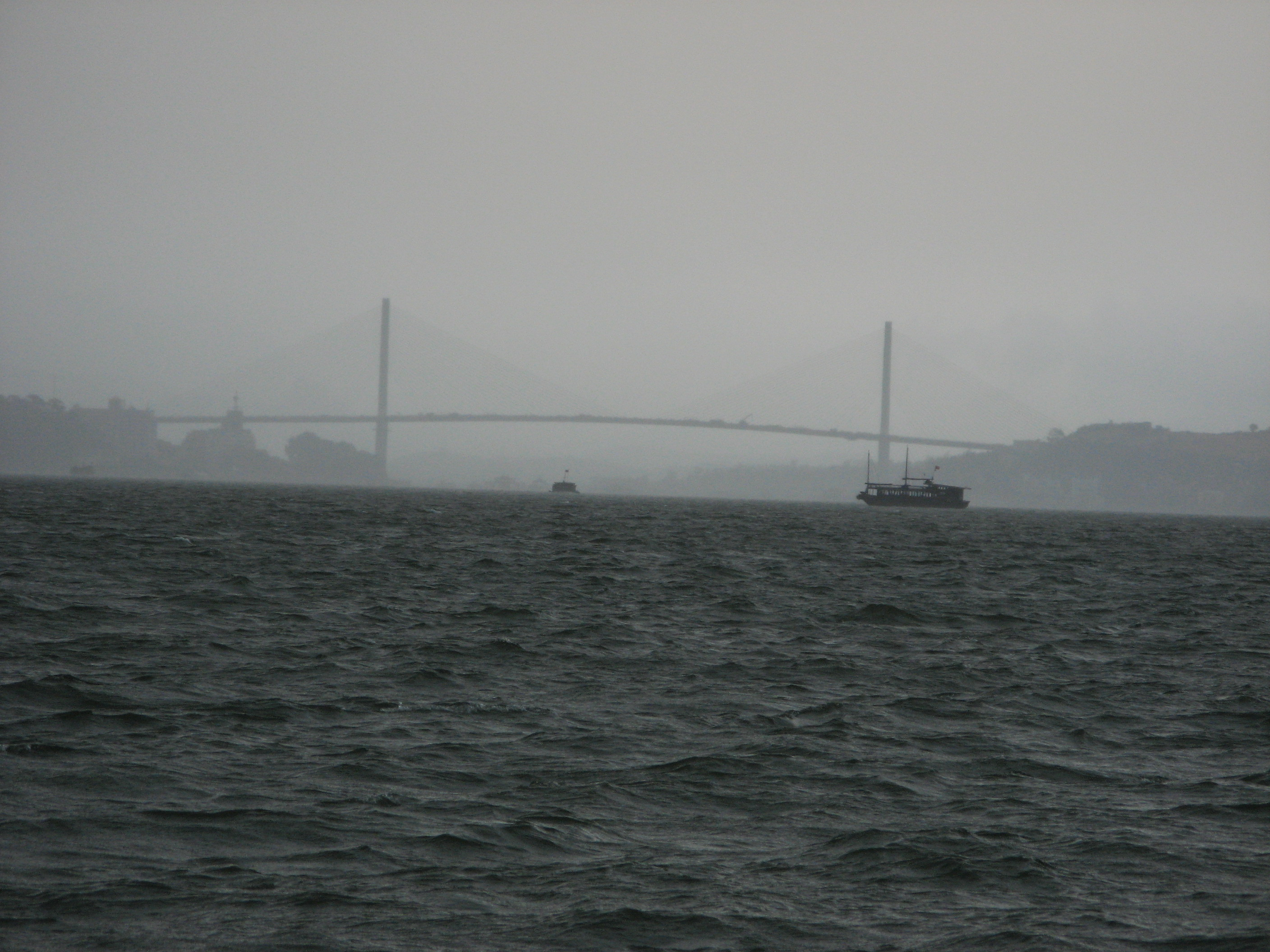 Bai Chay bridge, Ha Long city, Quang Ninh Province, Northeast Viet Nam